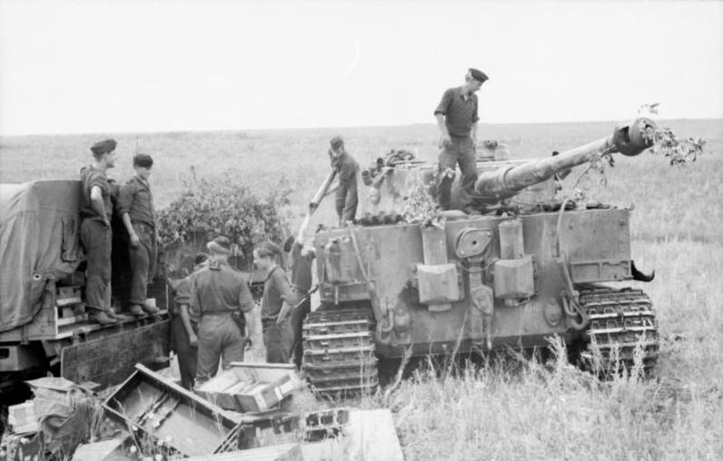 Information added by Wikimedia users.Mid 1943, 1st company, sPzAbt.503, Russia